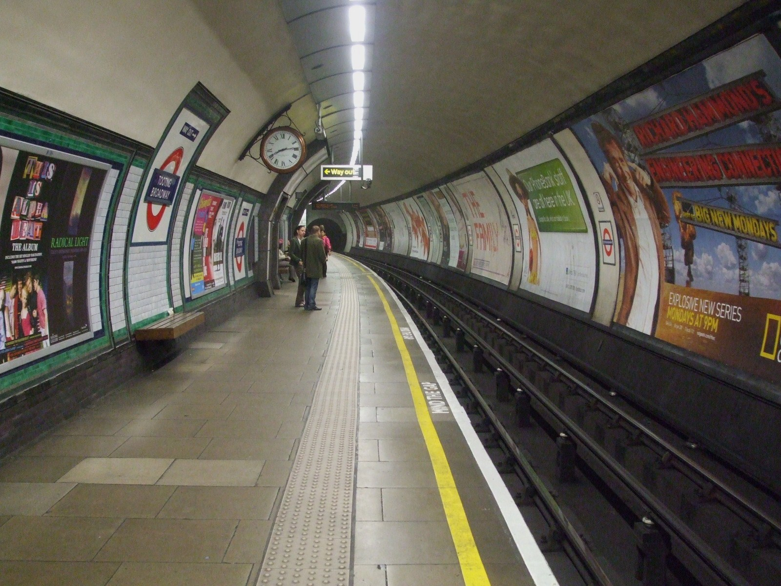 Tooting Broadway tube station northbound platform looking south